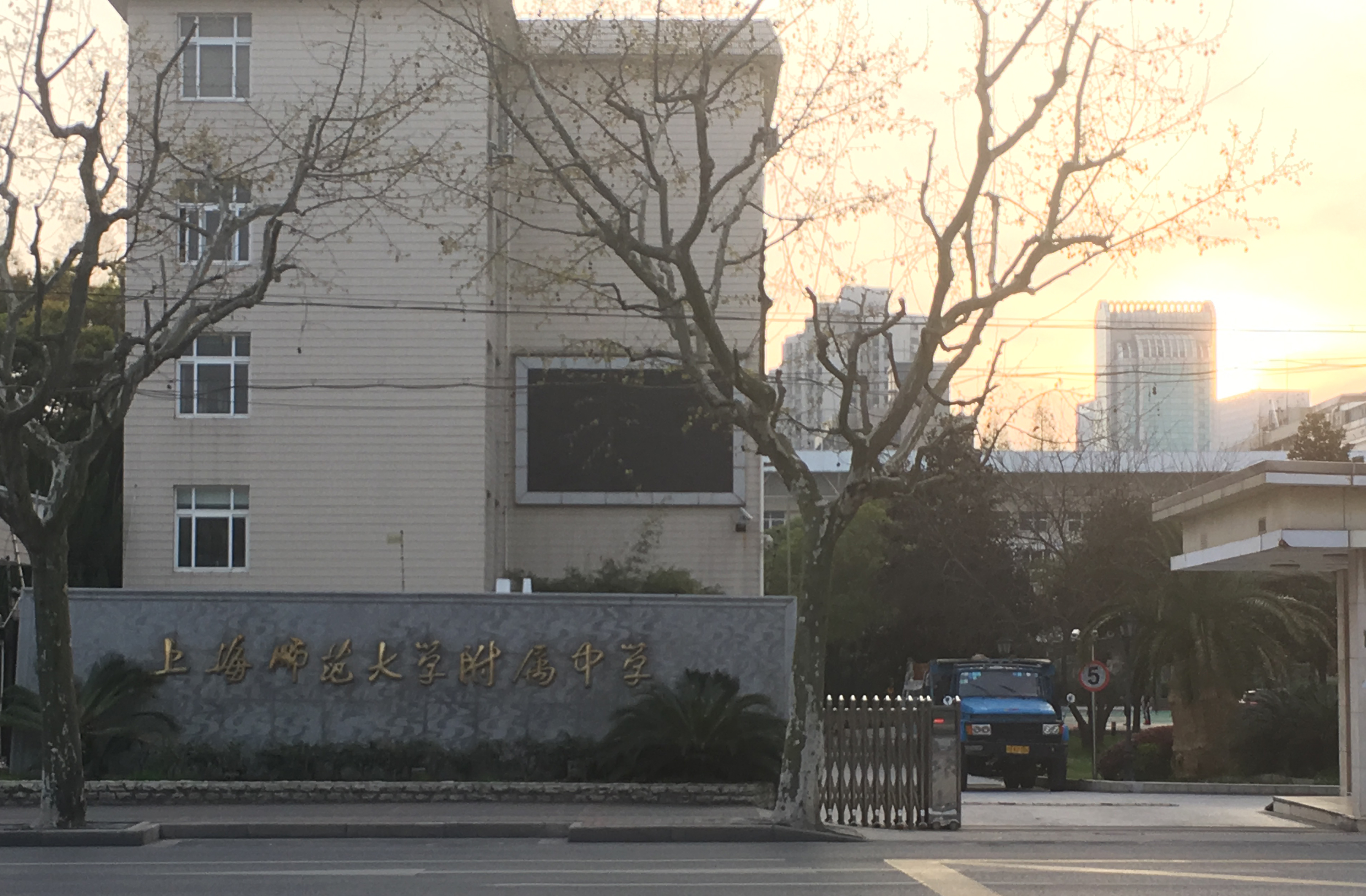 High School Attached to Shanghai Normal University, Xuhui Campus